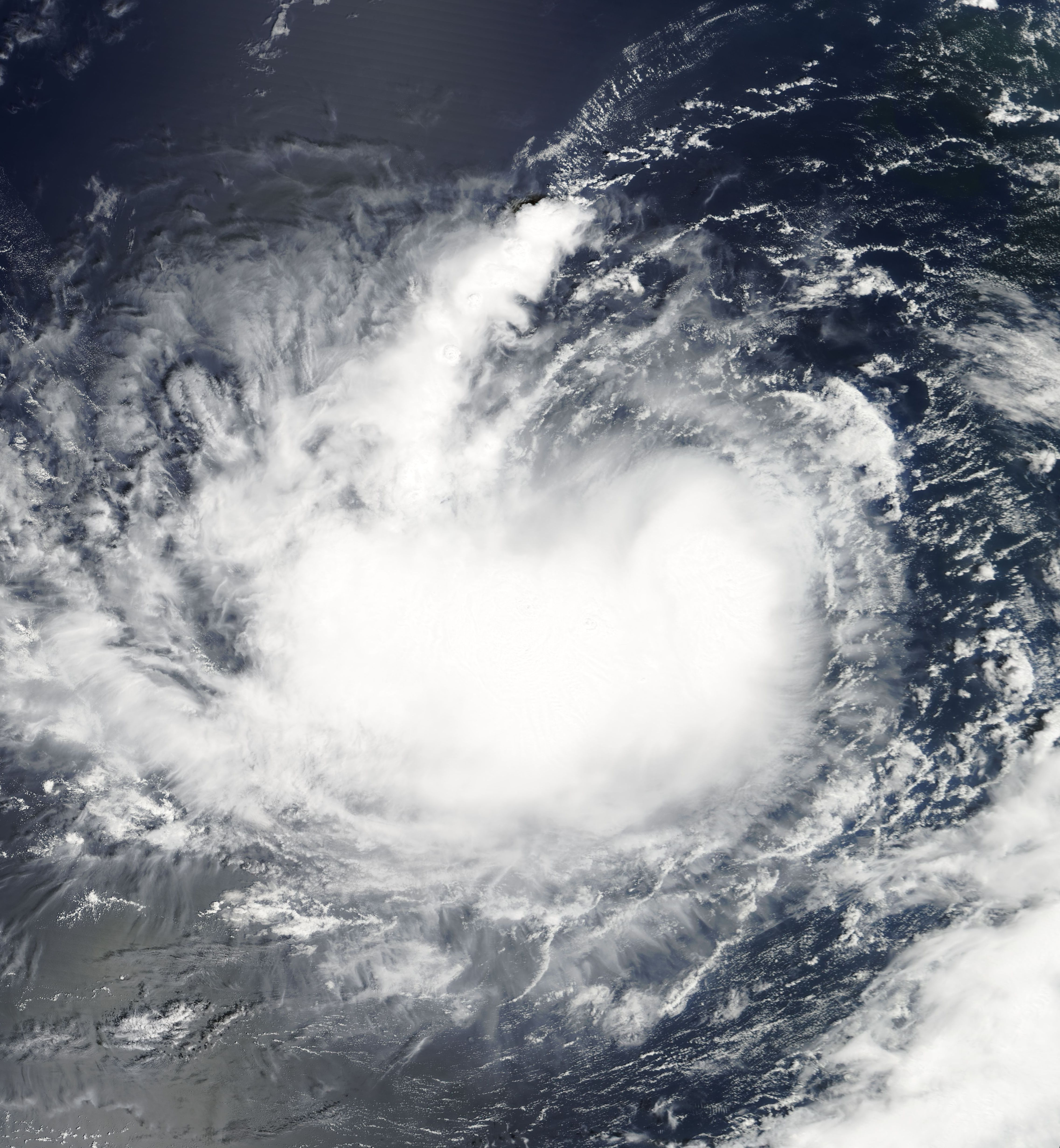 This image of Tropical Storm Norma was captured at 1824 UTC on September 24, 2005 by the MODIS instrument on NASA's Terra satellite. At the time it was located south of Mexico with maximum sustained winds of 60 mph (95 km/h) and a minimum pressure of approximately 997 mb.